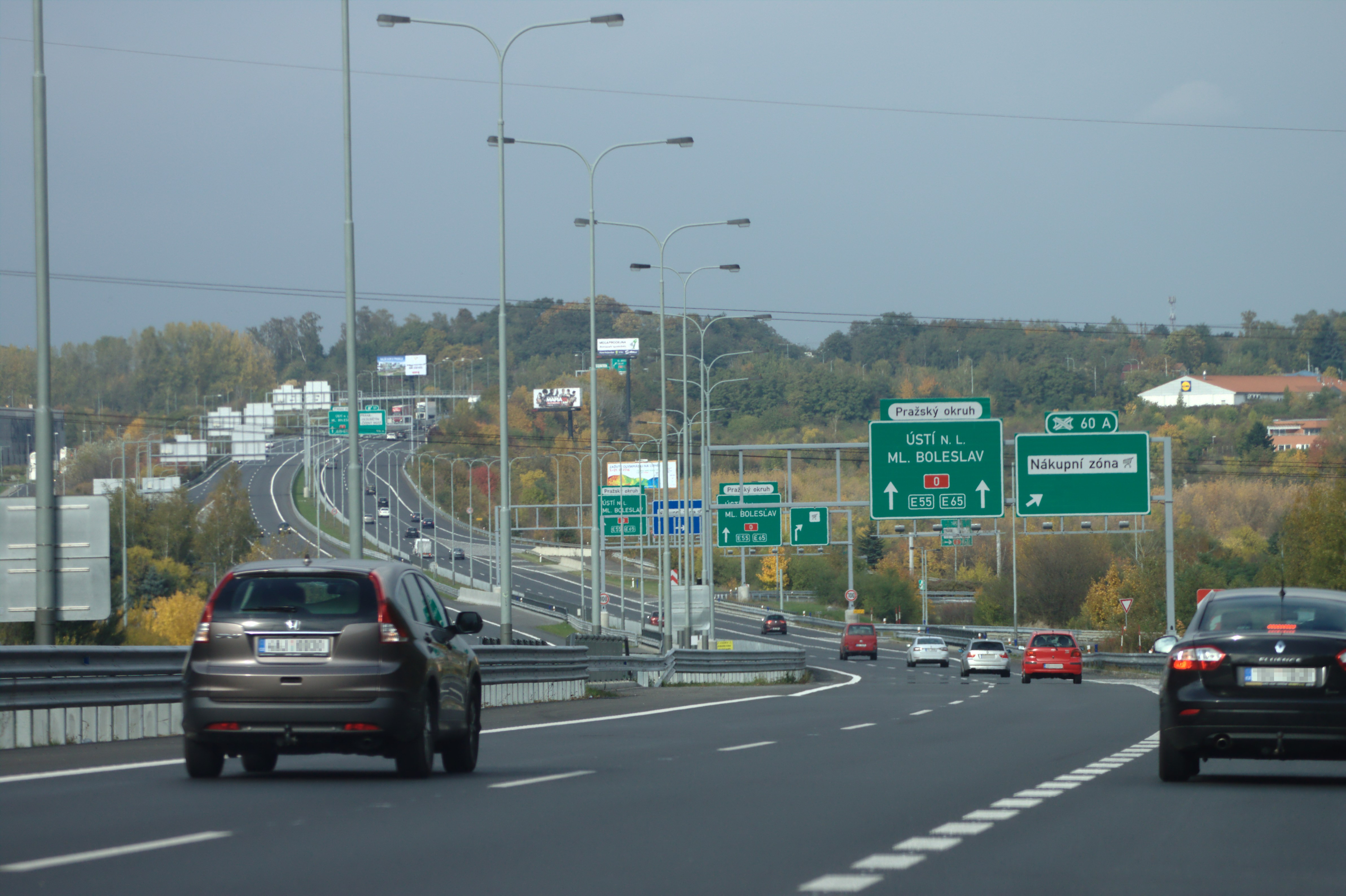 Prague Ring Road near Černý most, Prague, CZ